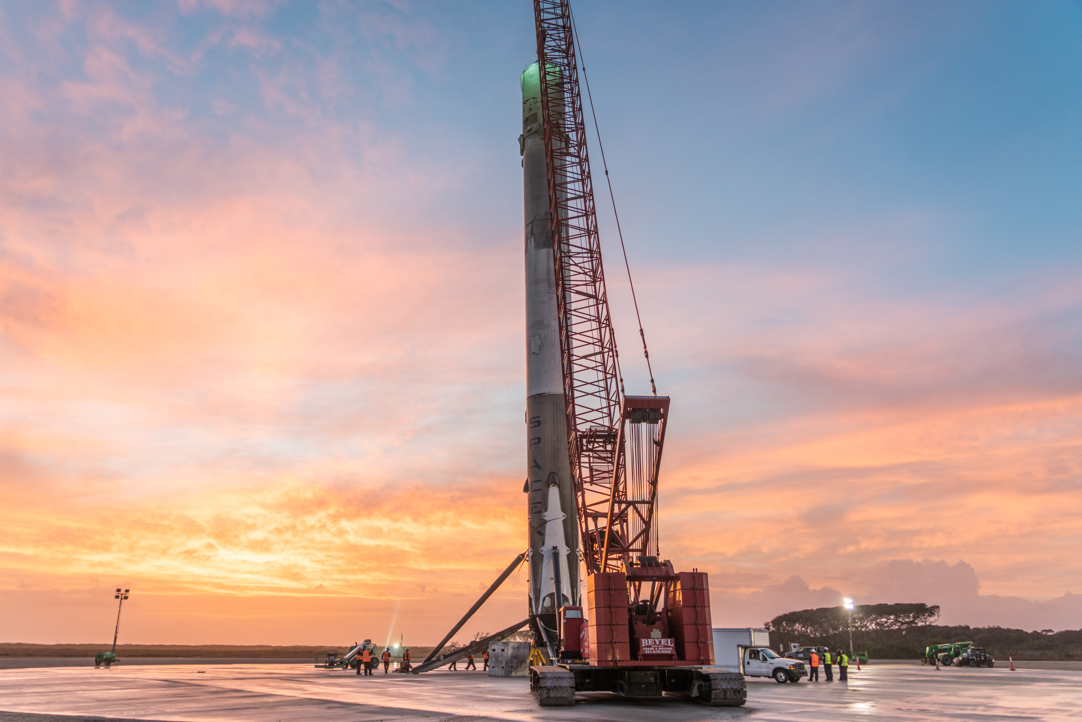 Falcon 9 First stage at Landing Zone 1